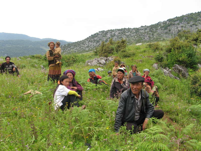 Yi people